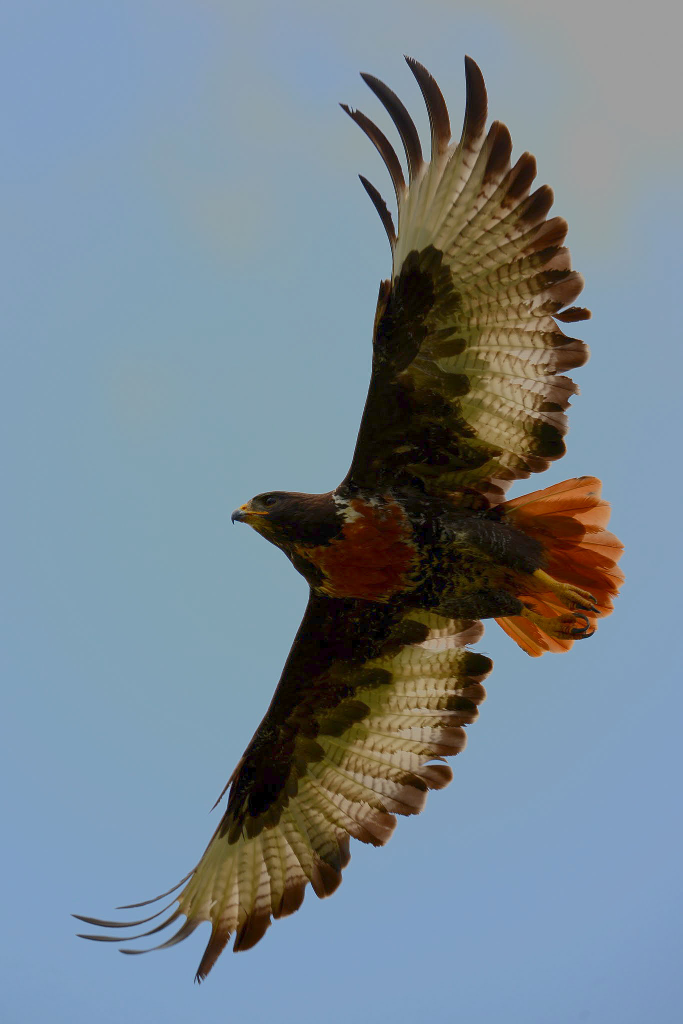 A Jackal Buzzard taking flight near Greyton, Western Cape, South Africa. The back-lighting highlights the red tail and the red on the chest is also clearly visible.